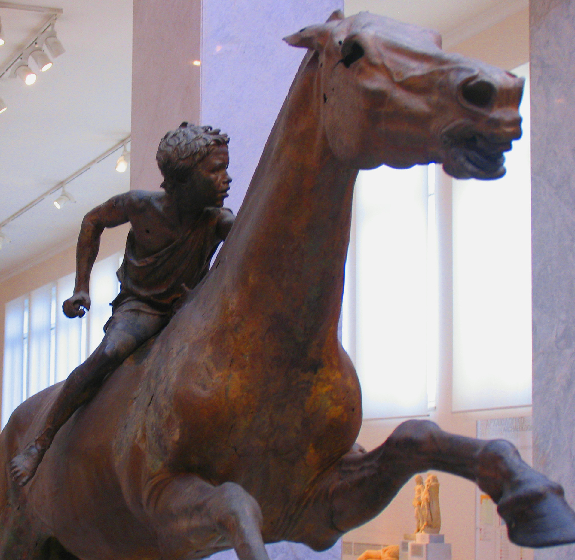 So-called Artemision jockey. Bronze, ca. 140 BC. Recovered from the sea near Cape Artemision in Euboea.